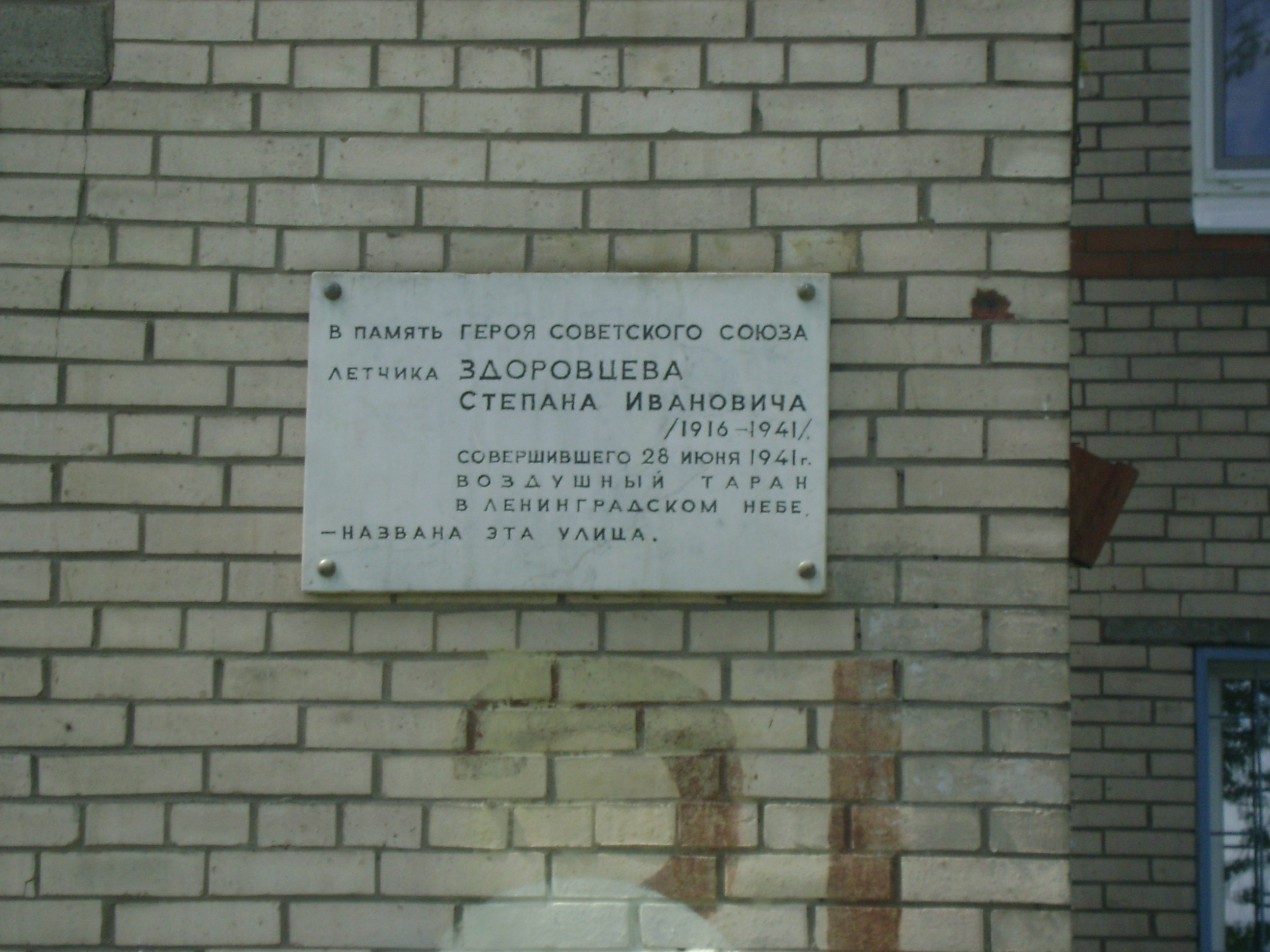 Zdorovtseva street memorial board (Saint Petersburg)